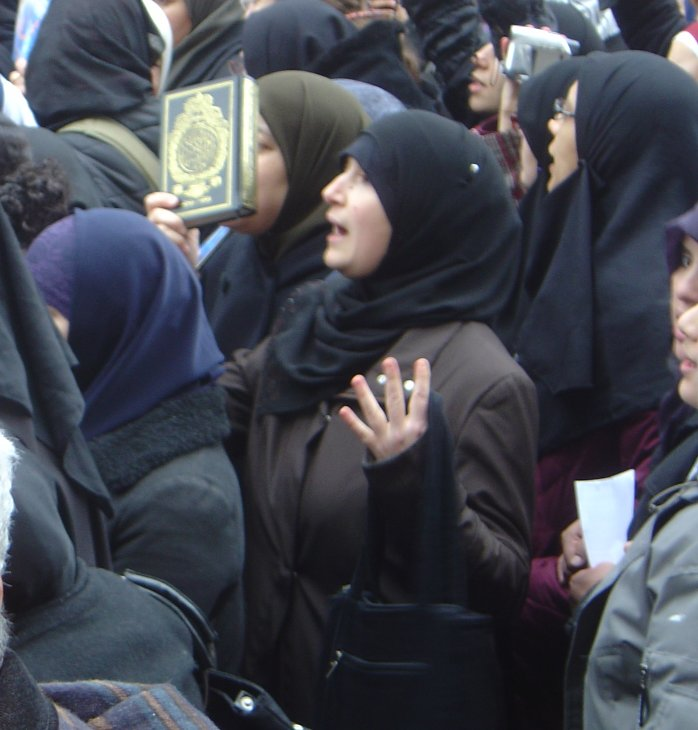 [February 11, 2006 Parisian protest against the publication of caricatures of Muhammad